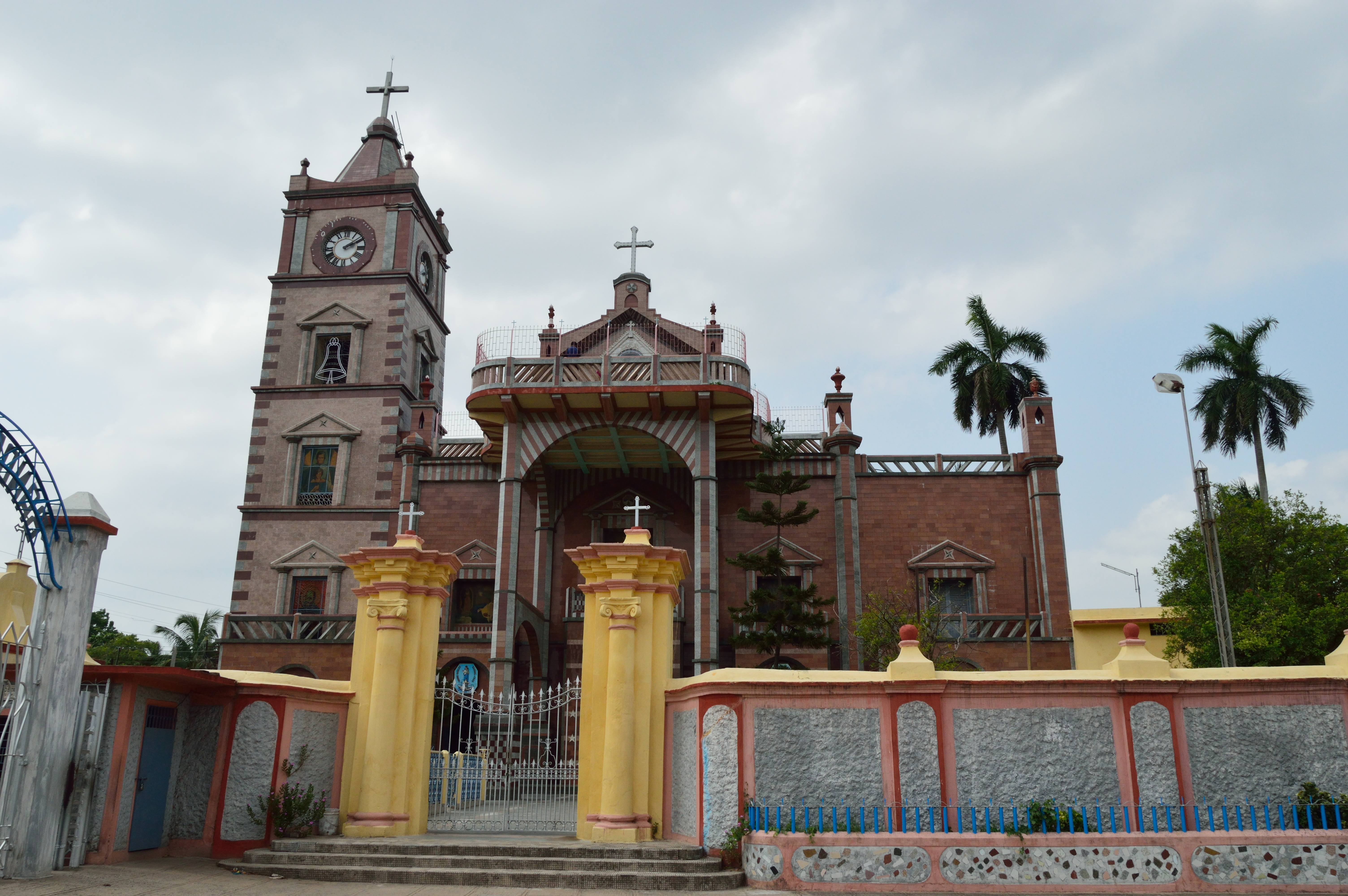 The Basilica of the Holy Rosary or Bandel Church, Bandel, Hooghly, West Bengal, India.